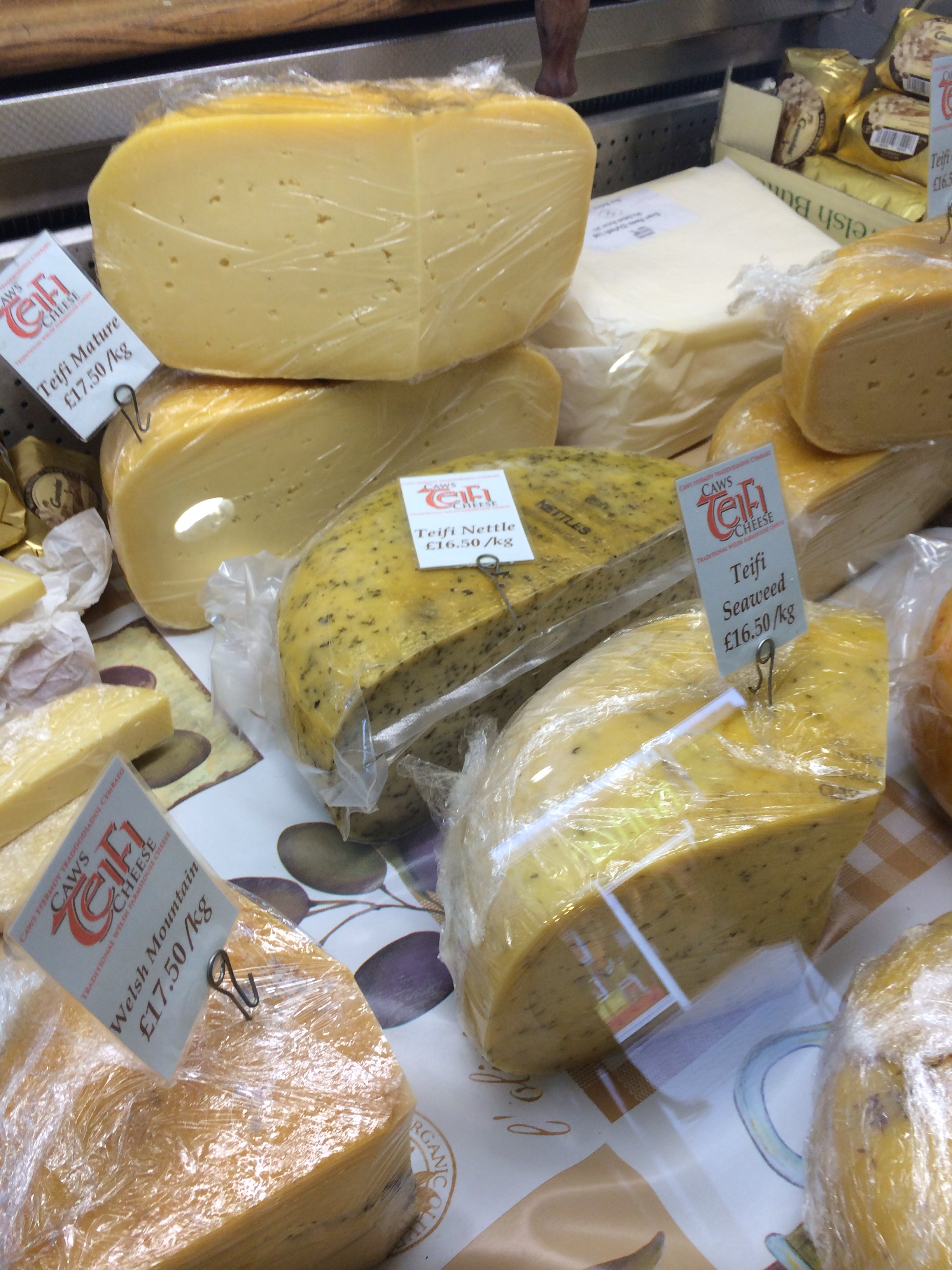 Selection of Teifi cheeses on sale at Carmarthen market, Carmarthenshire, Wales